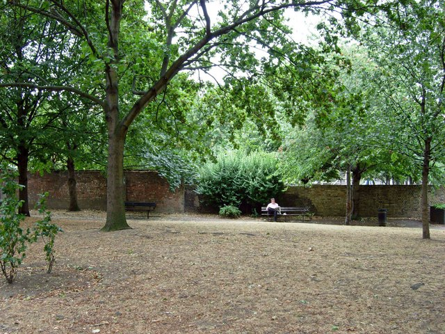 Joseph Grimaldi Park, Pentonville. This small London Borough of Islington park is located on the corner of Pentonville Road and Rodney Street between King's Cross and Islington. It contains the grave of Joseph Grimaldi, a famous thespian of his time. Note how the blistering July weather has parched the grass.